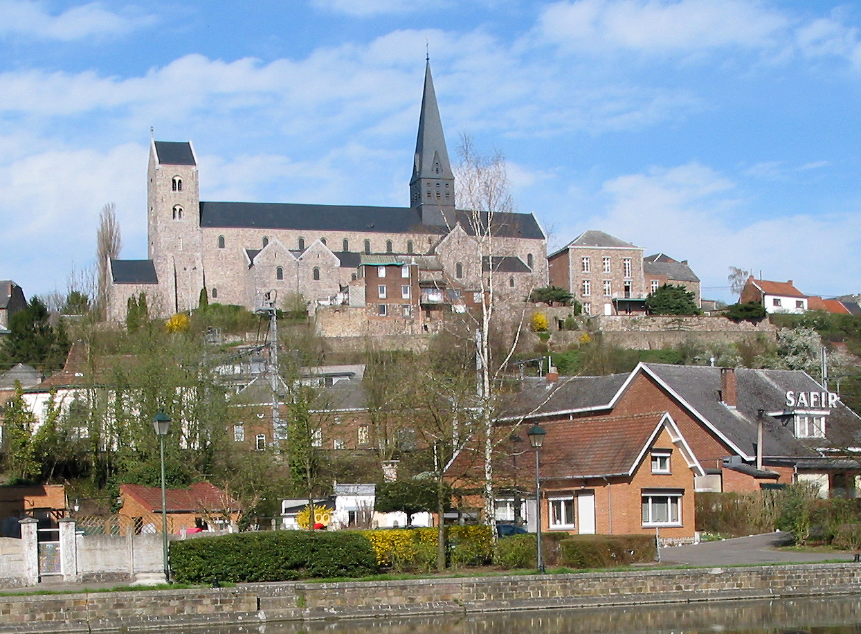 Lobbes (Belgium), the Sambre river the St Ursmar Collegiate church (XIth century).